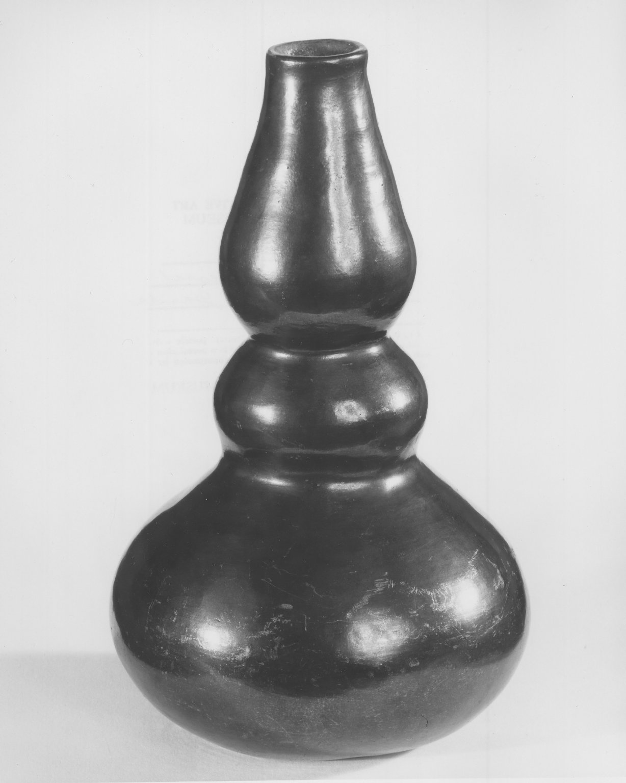 Vase